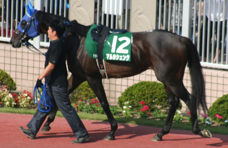 Maruka Shenck (Racehorse, Niigata Racecourse)